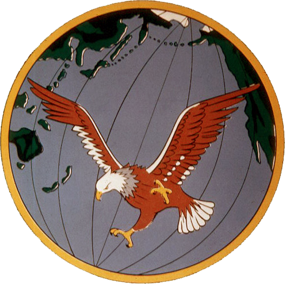 Insignia of the U.S. Navy Anti-Submarine Squadron 25 (VS-25) "Golden Eagles".